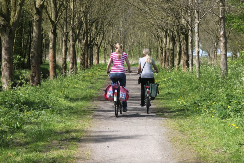 Cycling mother and daughter in a forest